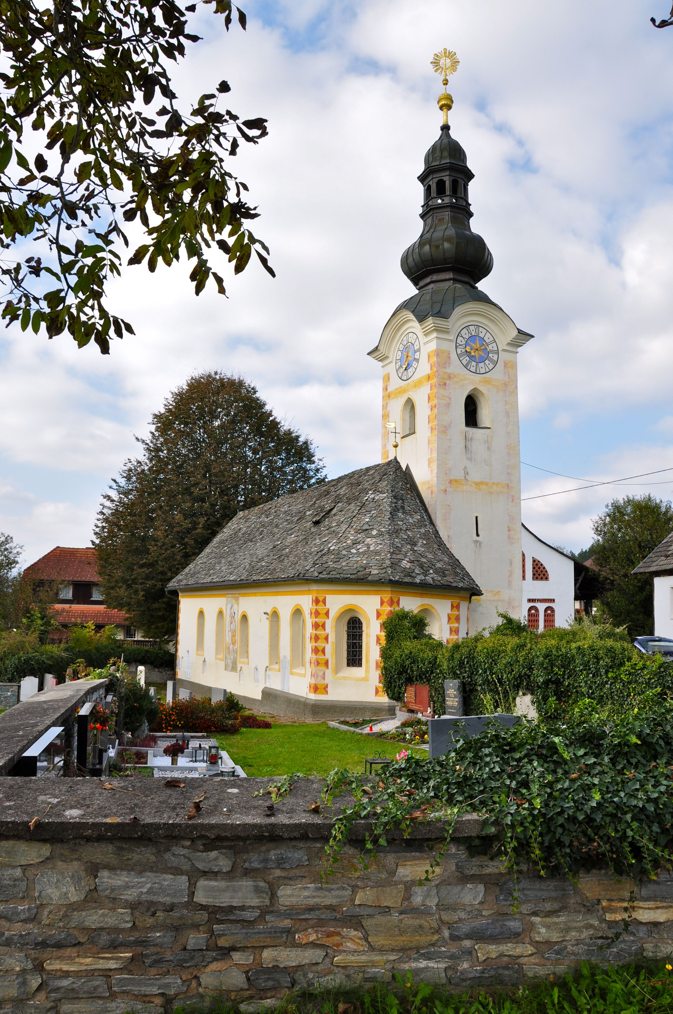 Subsidiary church Saints Philipp and Jakob in Sittich, municipality Feldkirchen, district Feldkirchen, Carinthia, Austria, EU